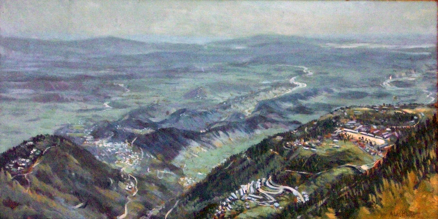 Dharamsala and Beas River. I commissioned and bought this painting from Alfred Hallett c. 1980. He died in 1986. I photographed the painting myself. John E. Hill (talk) 14:33, 15 June 2014 (UTC)